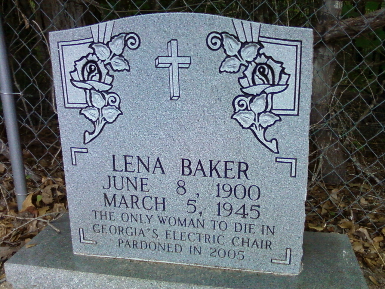 This is the Lena Baker headstone in Mt. Vernon Baptist Church cemetery, in Cuthbert, GA. (Photo taken in April 2012.)